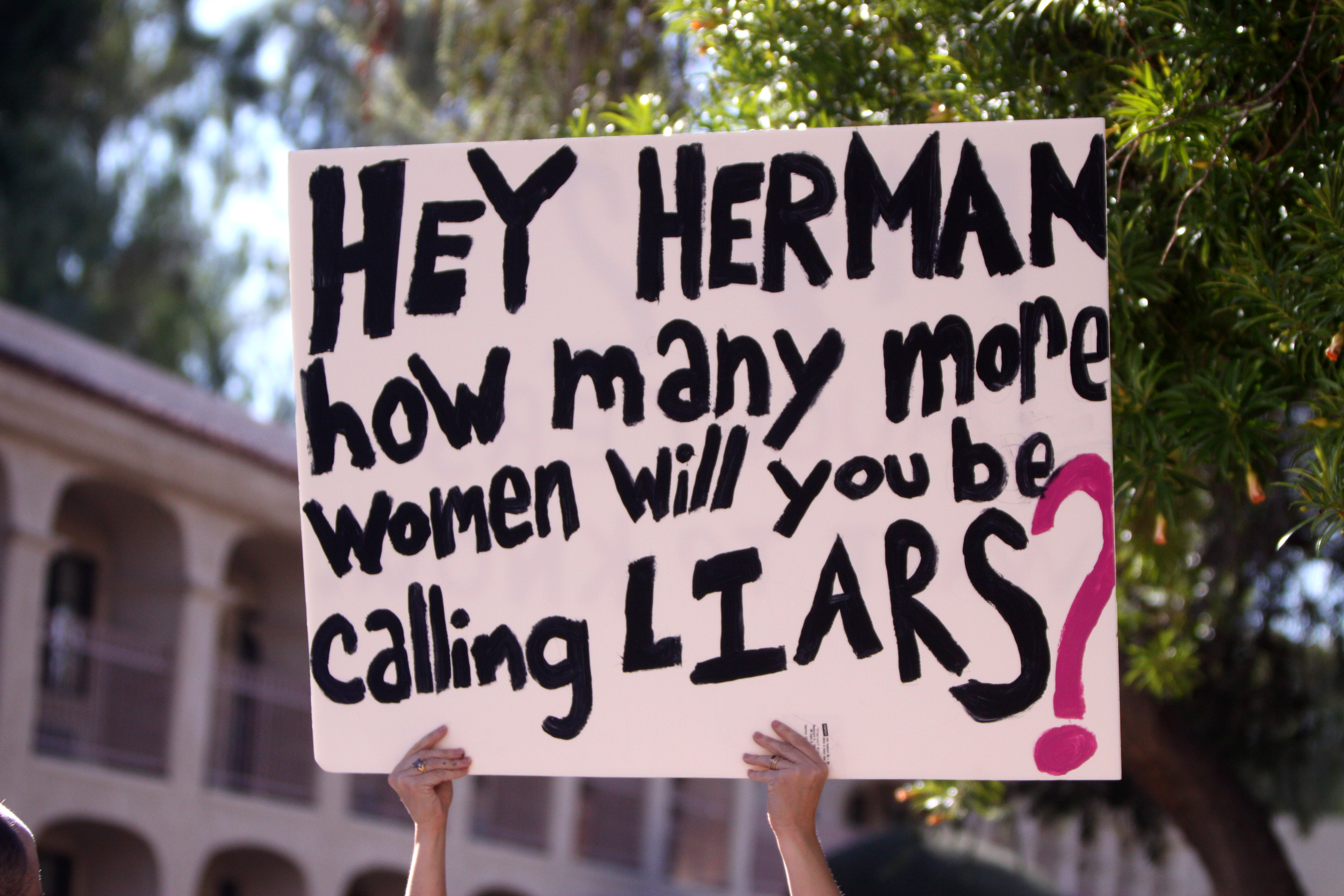 Protester of Herman Cain in Scottsdale, Arizona.